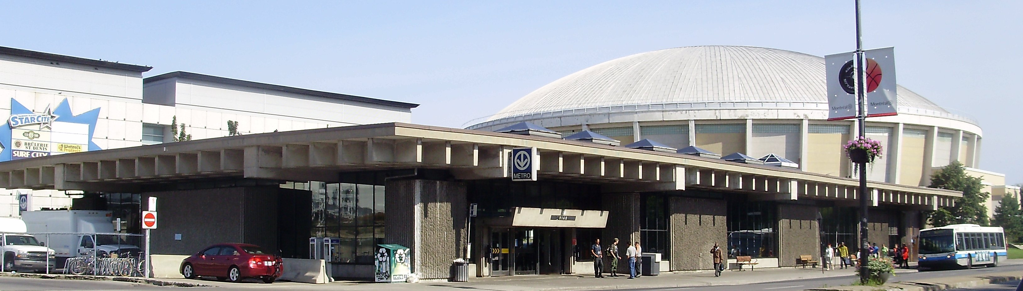 The Société de transport de Montréal's Viau metro station in Montreal, Quebec, Canada.